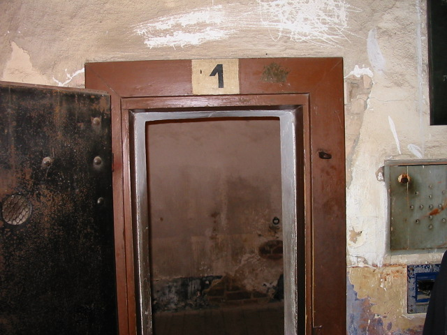 The cell where Gavrilo Princip was kept (photo taken on 9 April 2005).